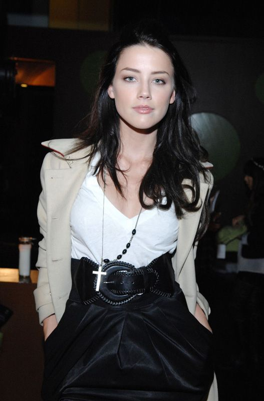 amber-heard-90121001